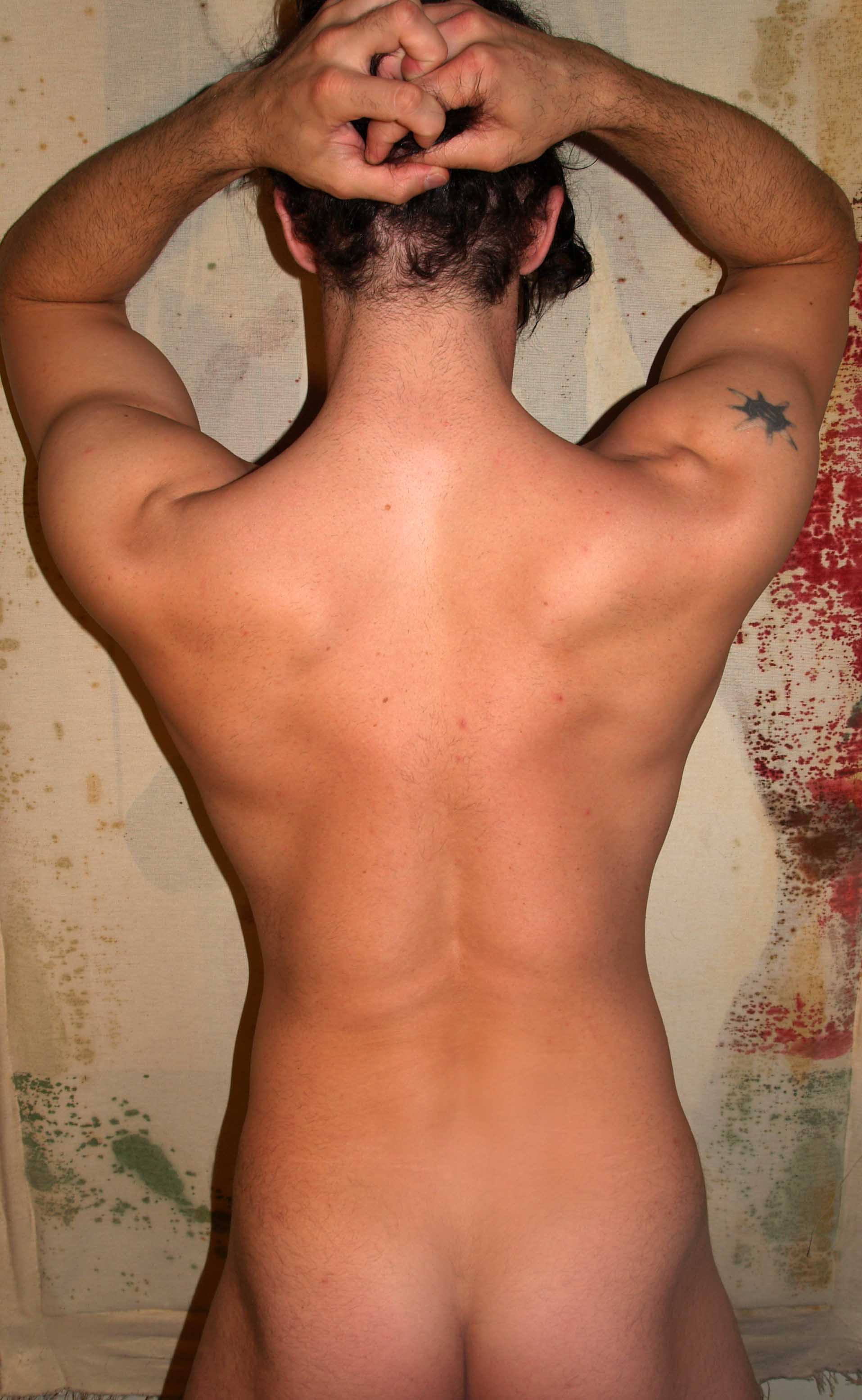 The back of a model.